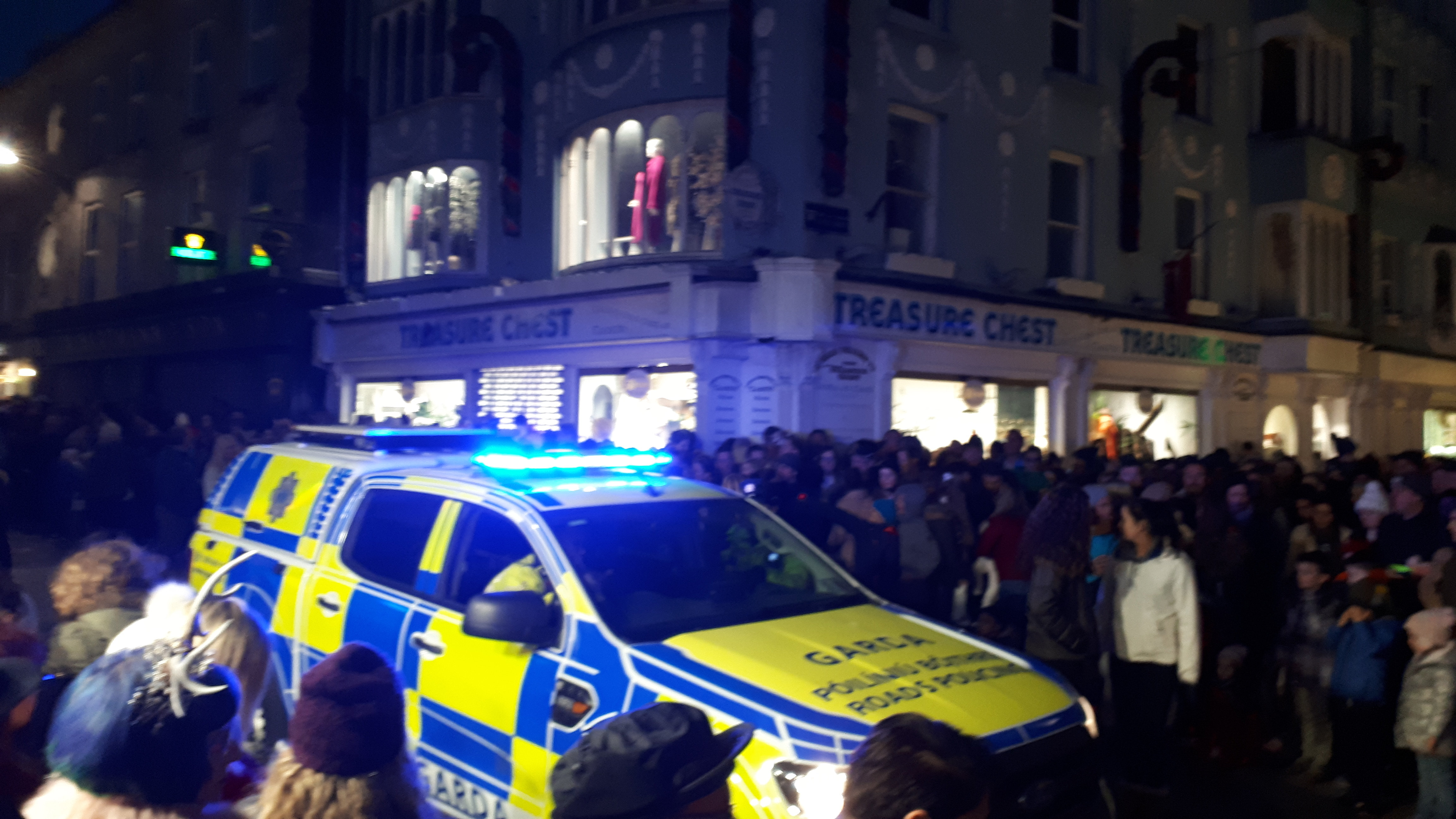 An garda siochana ford ranger